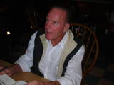 Frank Gifford at Book Signing of recent book on 1956 New York Giants team